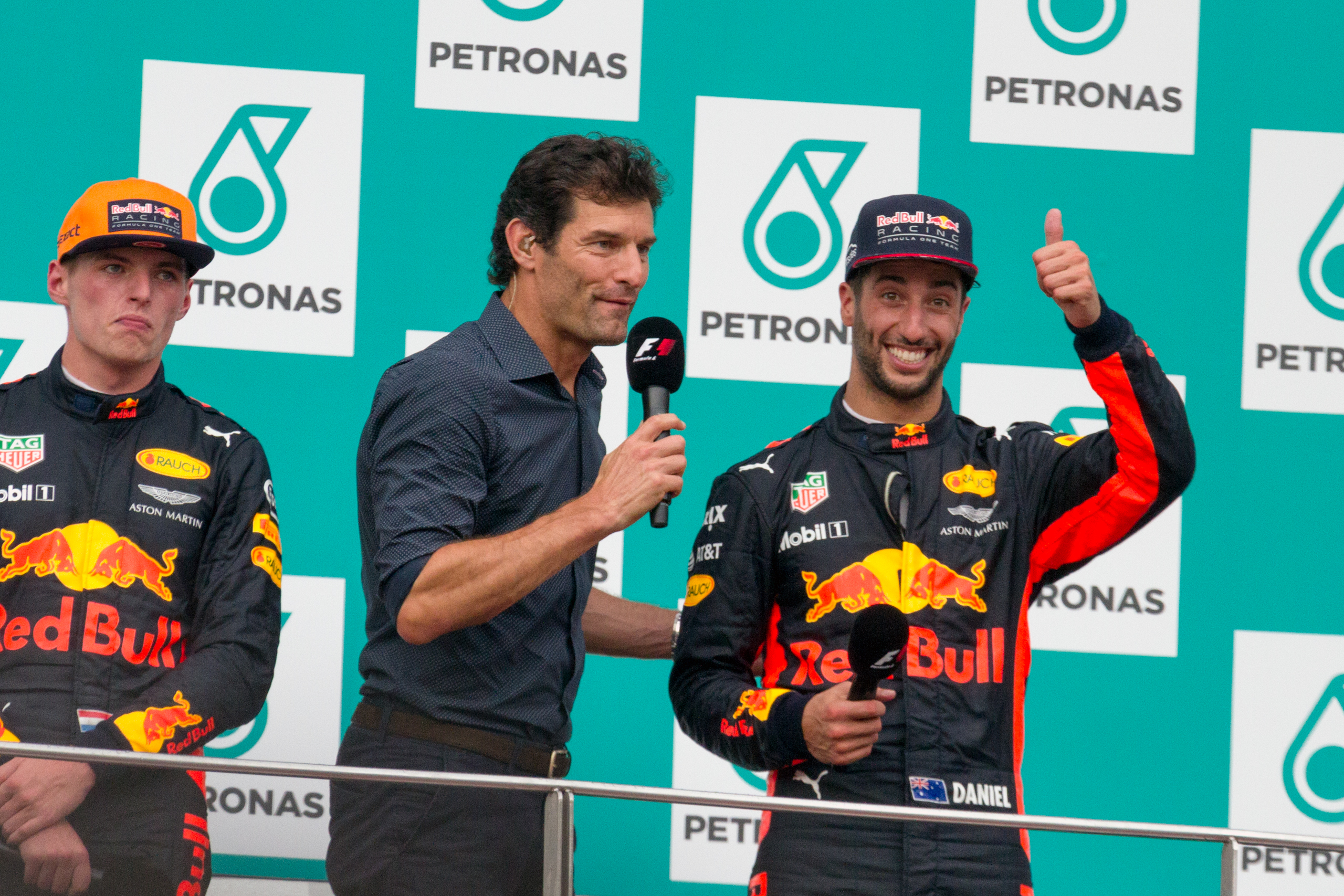 Formula One 2017 Rd.15 Malaysian GP: Daniel Ricciardo (Red Bull) at podium